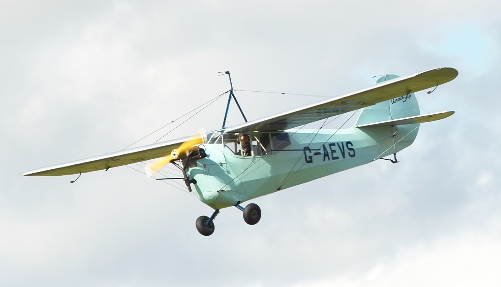 Aeronca A100 at Sywell Airshow, 24 August 2008